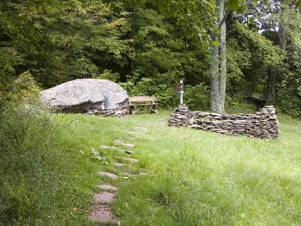 Original photo taken by me -Image courtesy of